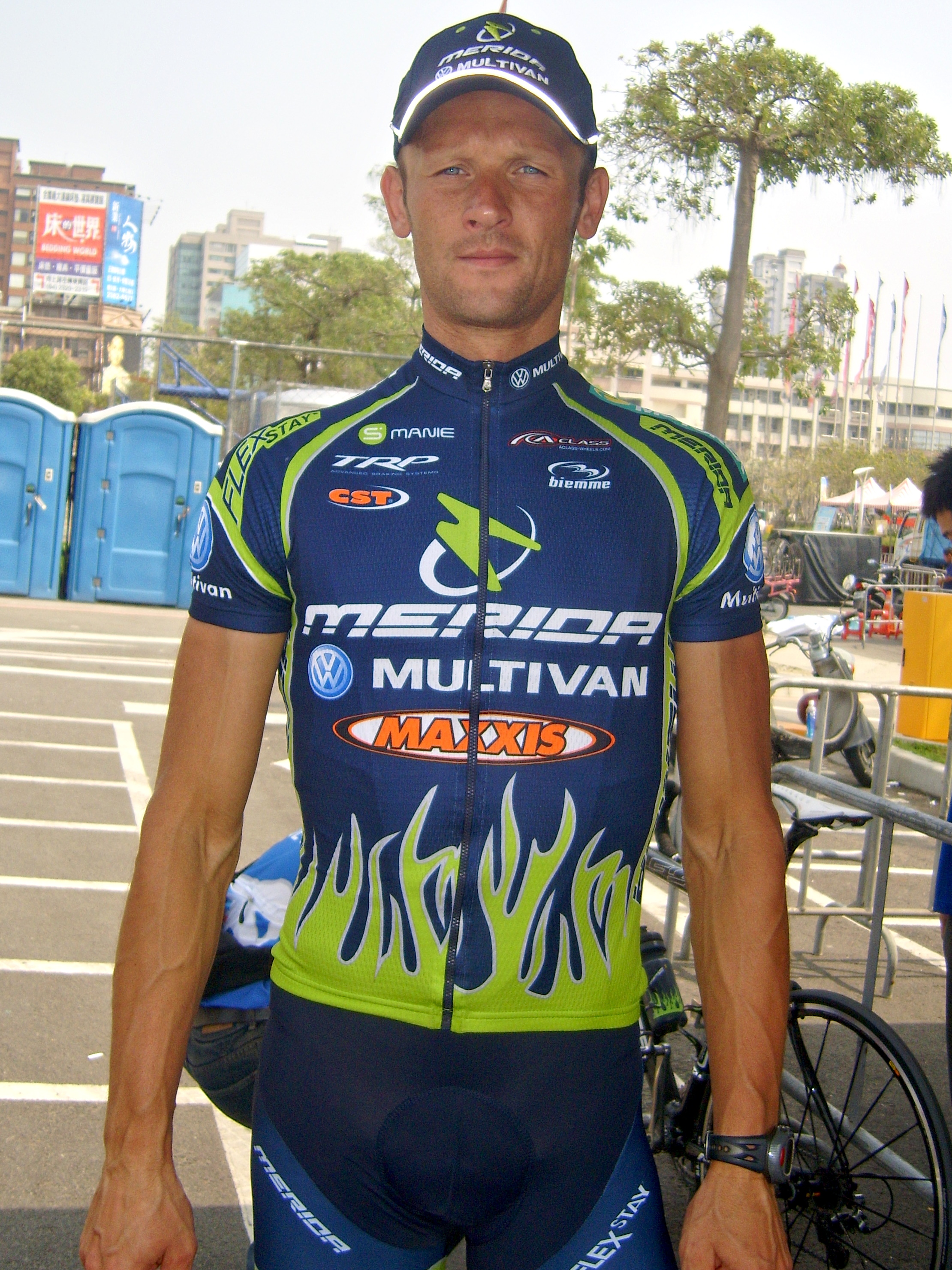 2008 Tour de Taiwan Taichung Stage: Krzysztof Jeżowski, the Stage Champion in this event.